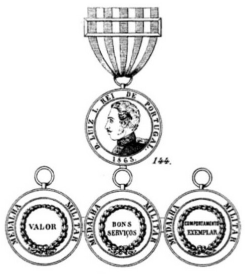 Military Medal (Portugal)